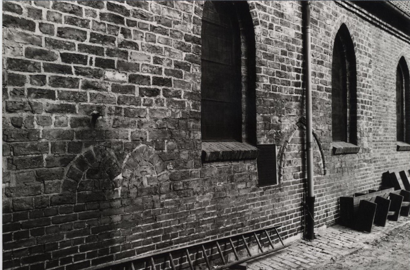 Bricked up pointed-arch openings (portal and two windows) on the south brick wall of the village church Weissensee in Berlin-Weissensee, Germany